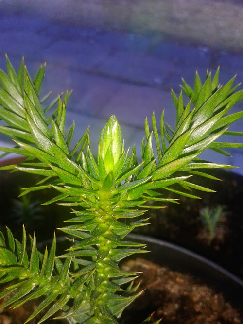 Young monkey puzzle tree